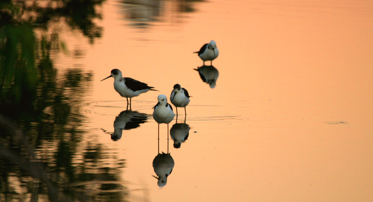 Adult and immature White-headed Stilts (Himantopus leucocephalus). Photographed by Gary Beilby on 14 Jan 2006 in Kewdale, Western Australia